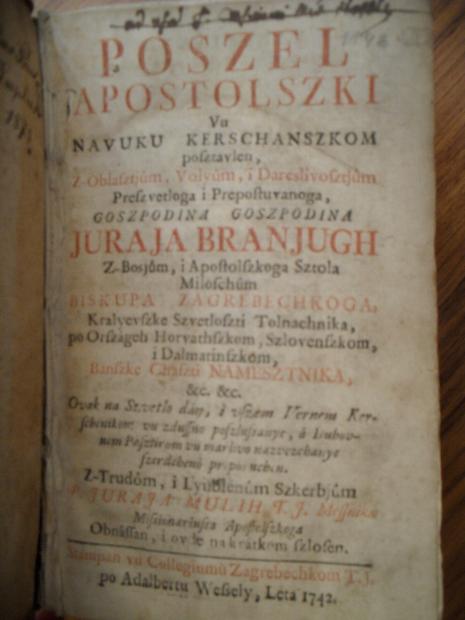 Juraj Mulih: Poszel Apostolszki (Apostolic Mission), cathecism in Kajkavian Croatian language (kajkavski)from 1742